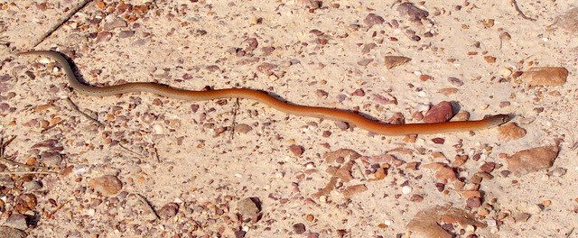 Scaly-foot at Basin Track, Ku-ring-gai Chase National Park, Australia